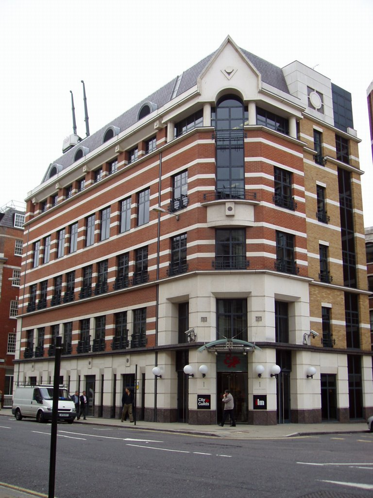 IN - LONDON Institute of Leadership & Management, City and Guilds of London Institute 1 Giltspur Street, London EC1A 9DD